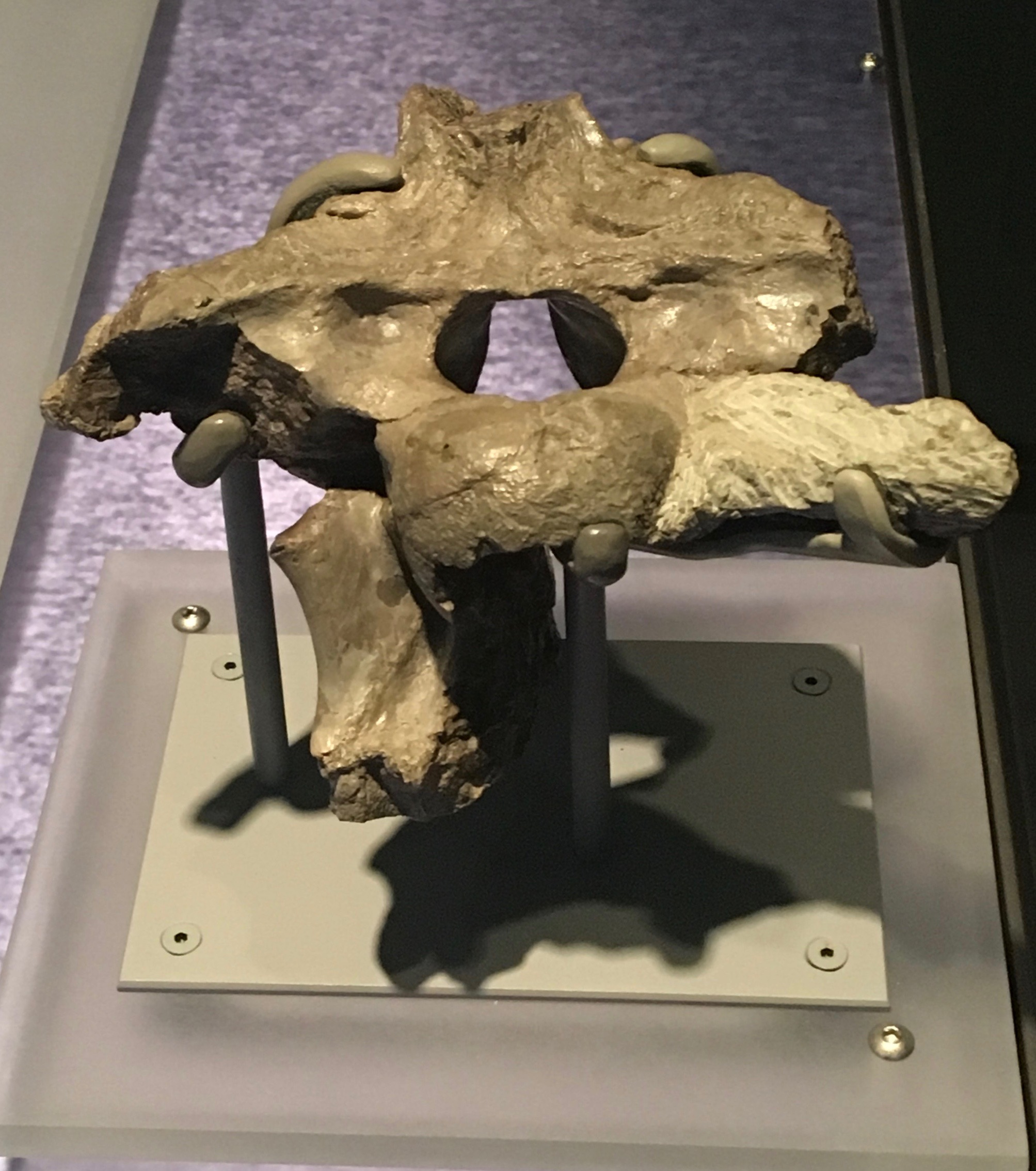 Braincase of Cryolophosaurus. This is the braincase of a second Cryolophosaurus found at Mt. Kirkpatrick. The knobby part is where the neck vertebra connects and the hole is where the spinal cord passes to the brain.